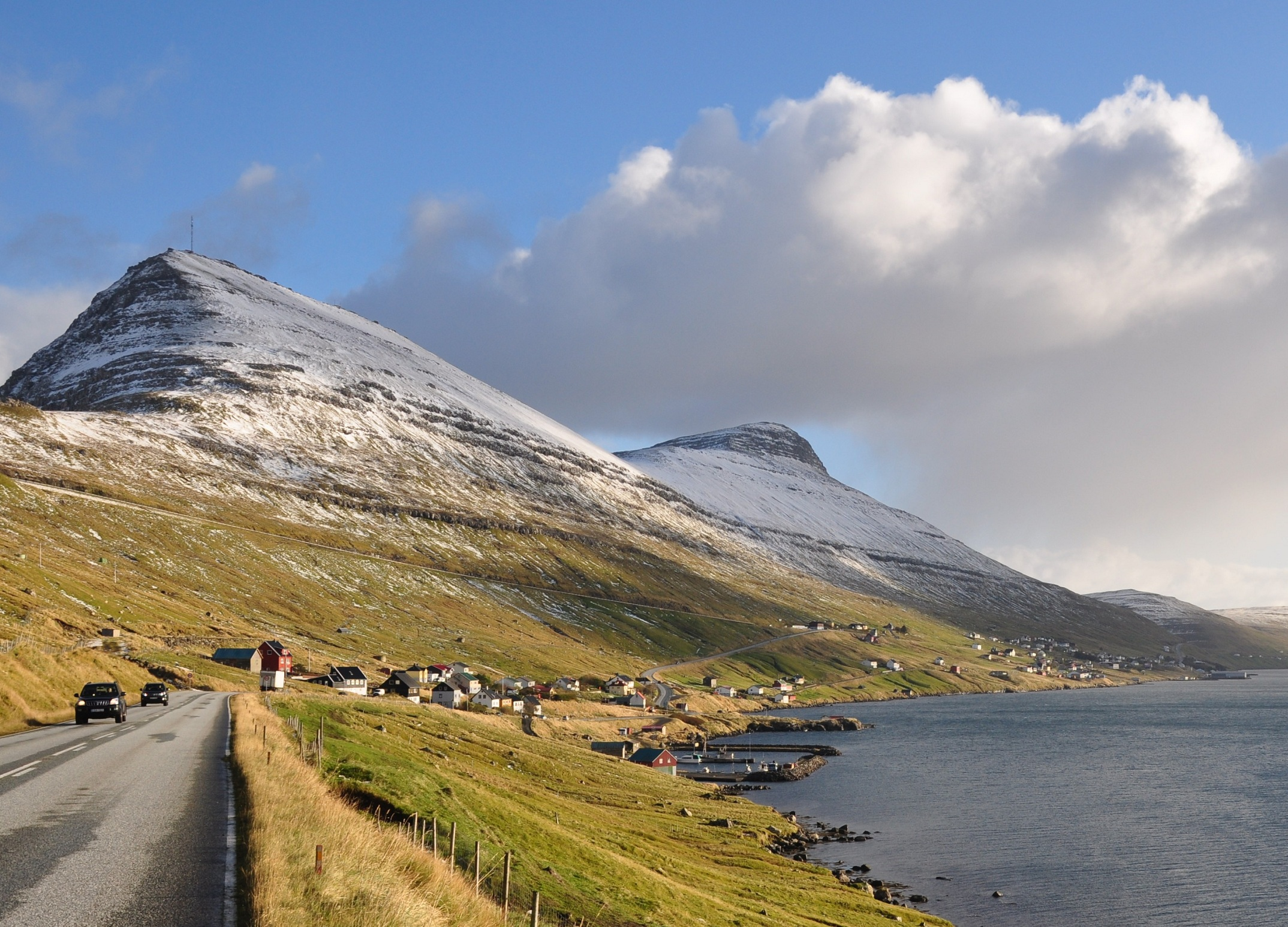 Approaching the villages of Undir Gøtueiði, Skipanes (seen as one village, with harbour) and Søldarfjørður (in the distance, right) along the NE shore of Skálafjørður (Eysturoy, Faroe Islands). The two peaks are Støðlafjall (517 m) and Stórafjall (567 m).